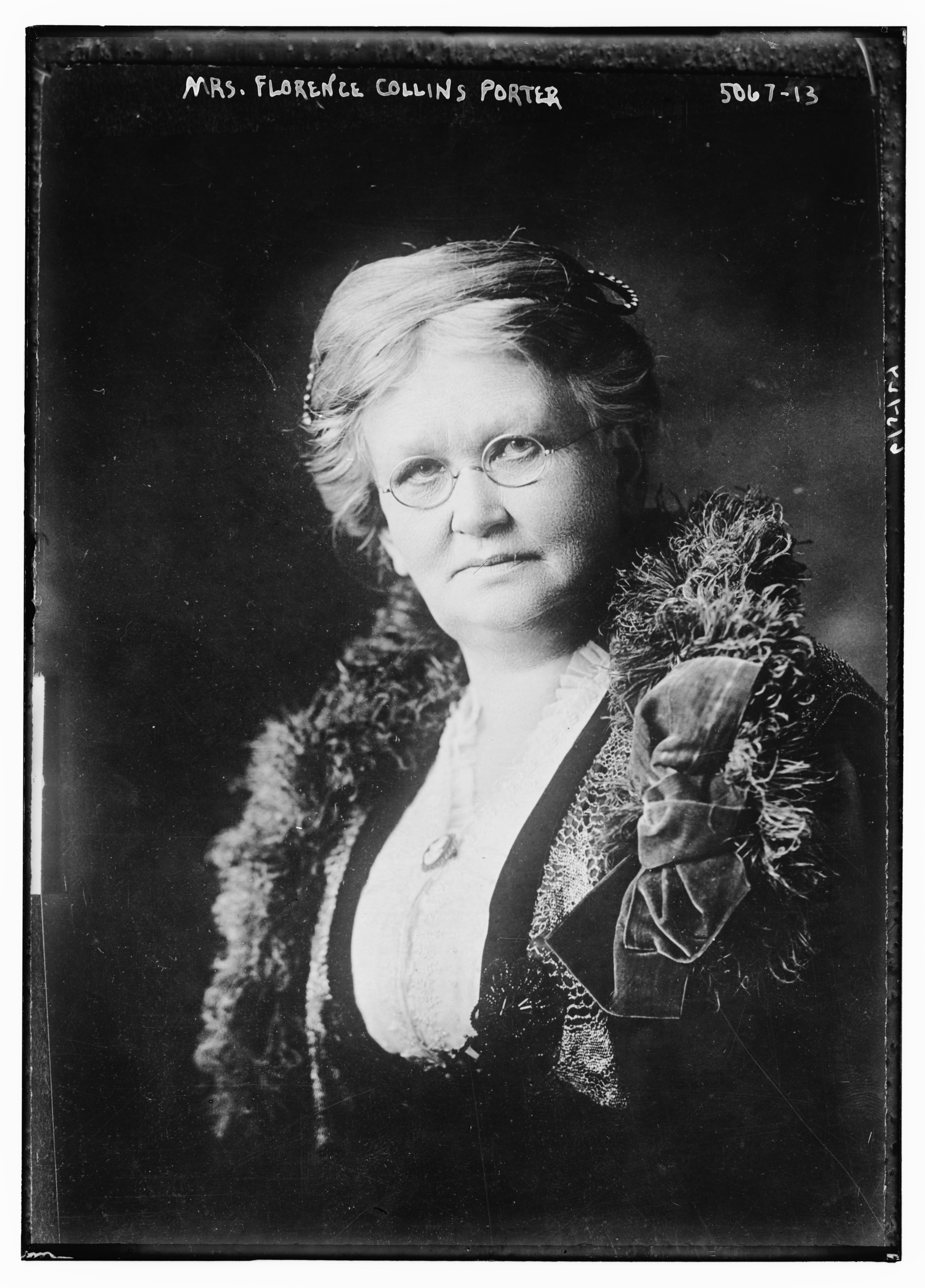 Title: Mrs. Florence Collins Porter Abstract/medium: 1 negative : glass ; 5 x 7 in. or smaller.